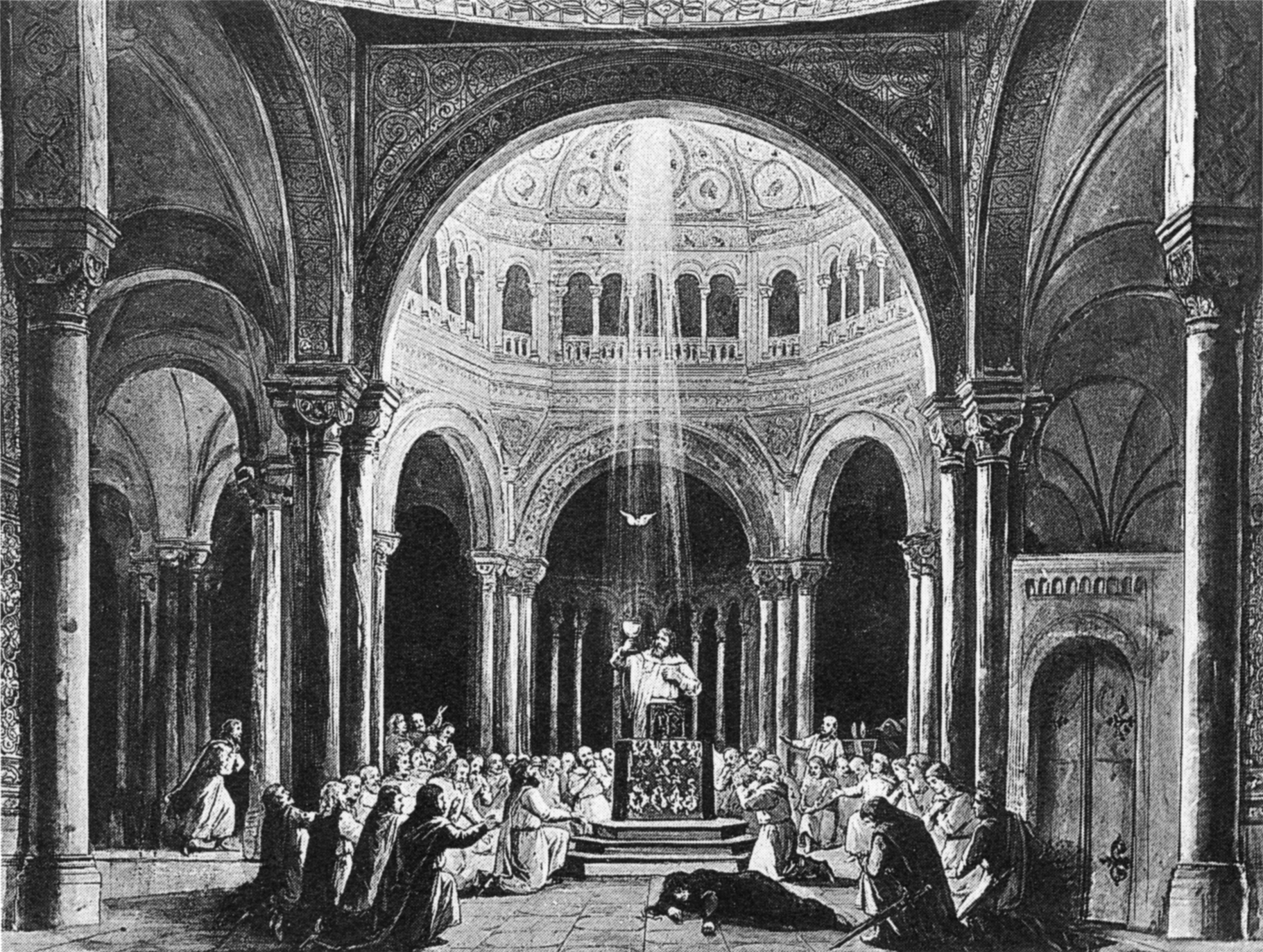 Stage design for Act III of Wagner's Parsifal